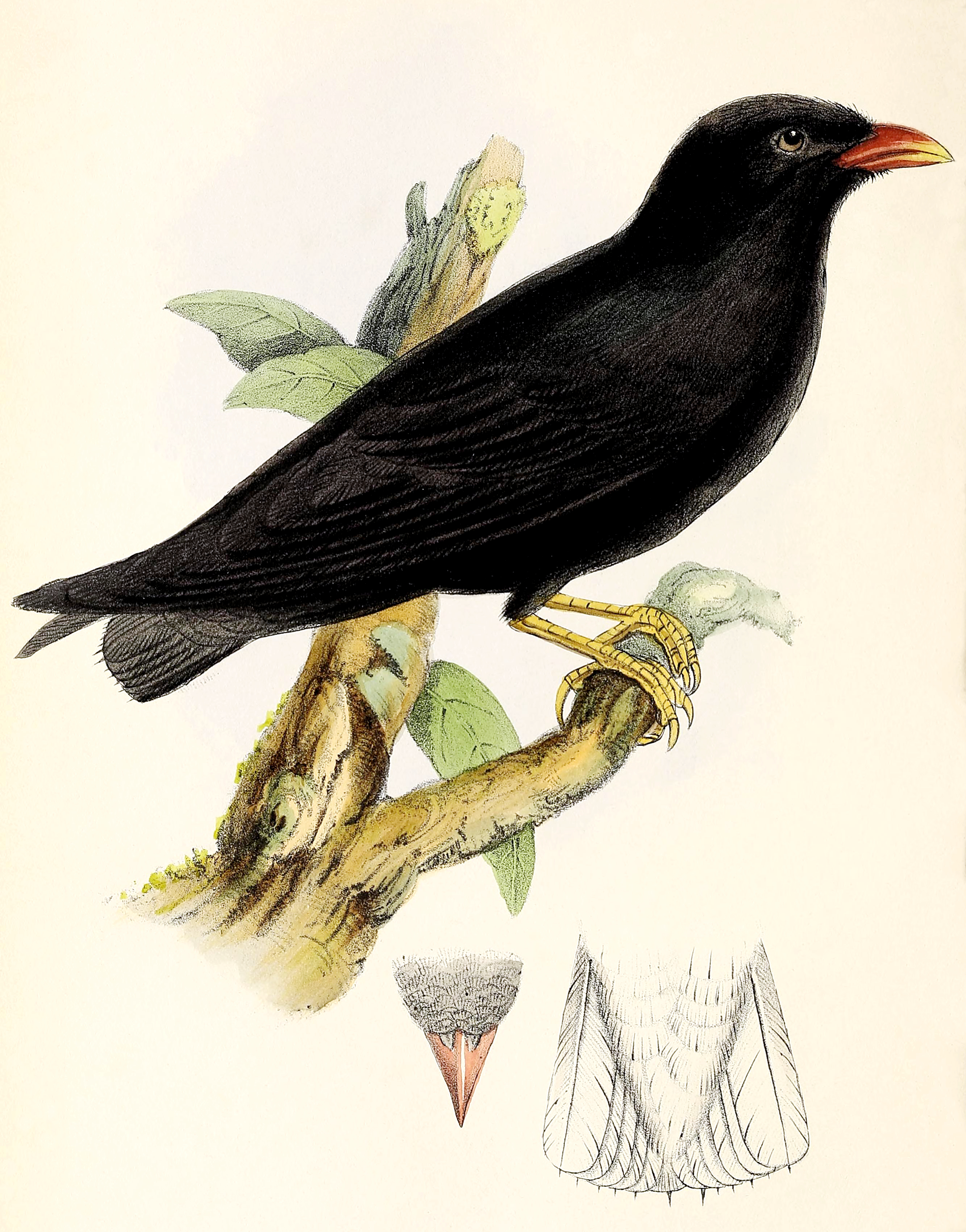 « Psalidoprocne cypselina » = Pseudochelidon eurystomina (African River Martin)